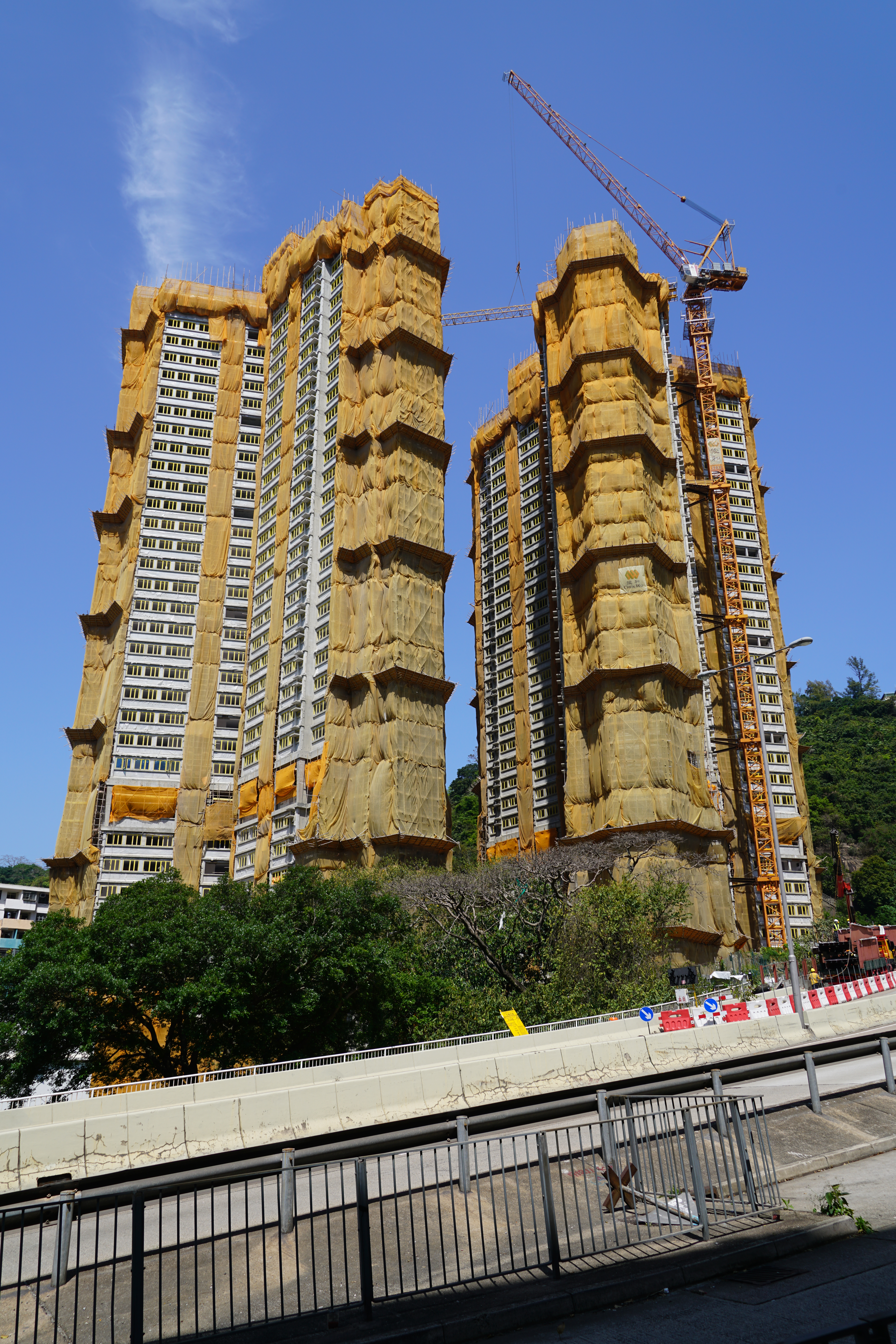 Ming Wah Dai Ha, Hong Kong.